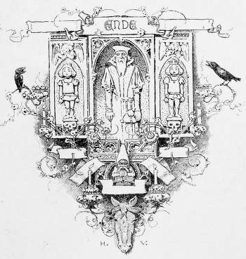 illustration of the Brothers Grimm fairy tale "Trusty John"